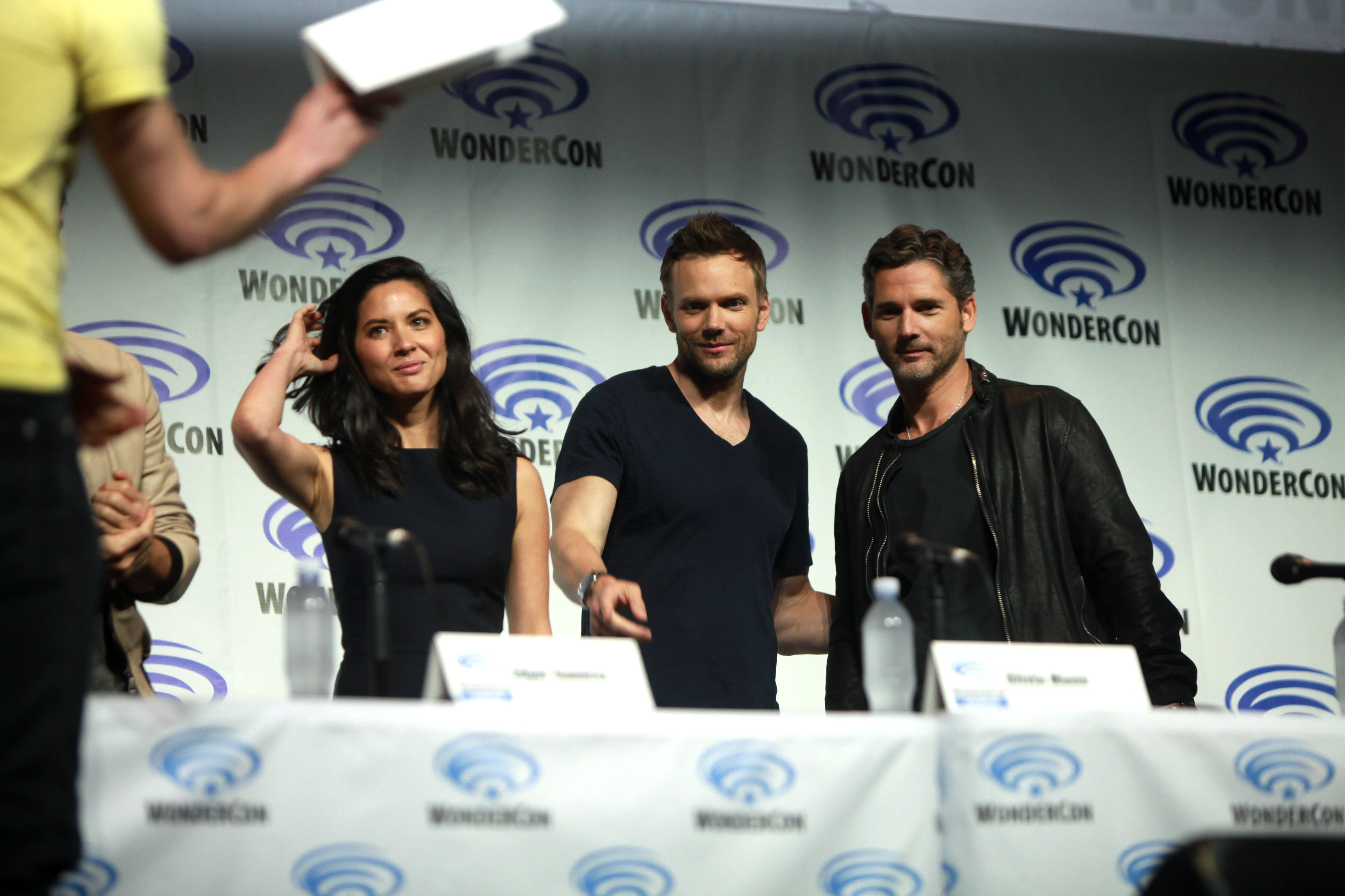 Olivia Munn, Joel McHale and Eric Bana speaking at the 2014 WonderCon, for "Deliver Us from Evil", at the Anaheim Convention Center in Anaheim, California.